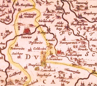 Bieg Nysy Szalonej na mapie w 1645 r.